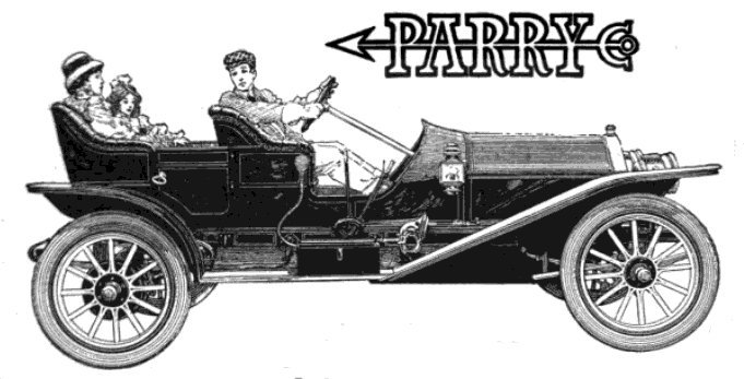 "New Parry" Model 37 4-passenger Baby Tonneau (1911 model); a 35 HP 4-cylinder car, moderately priced at $1350. Image pulled from a magazine ad from the Google Books digital repository